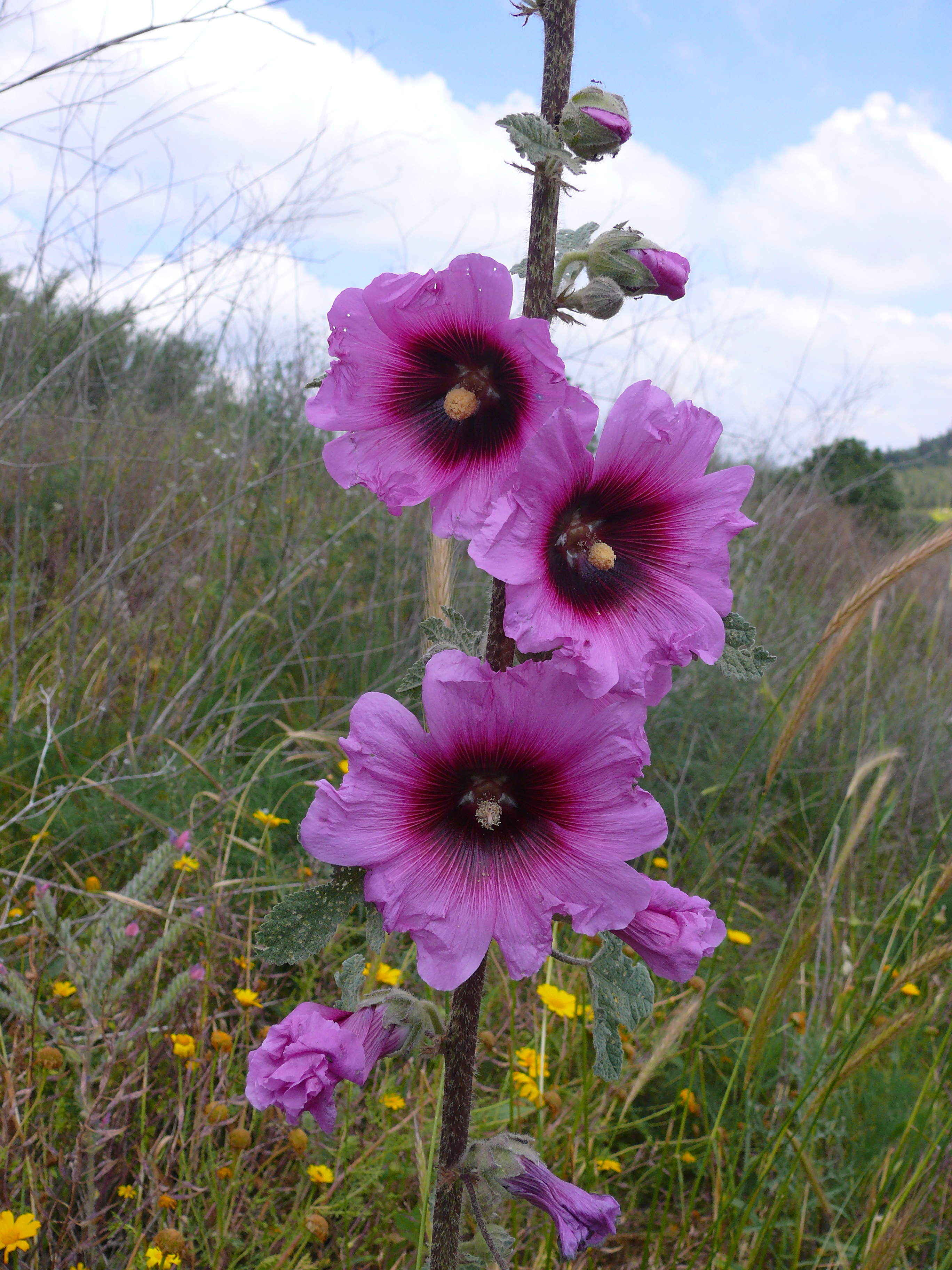 Alcea setosa ("Harvesters' Rose"), Israel